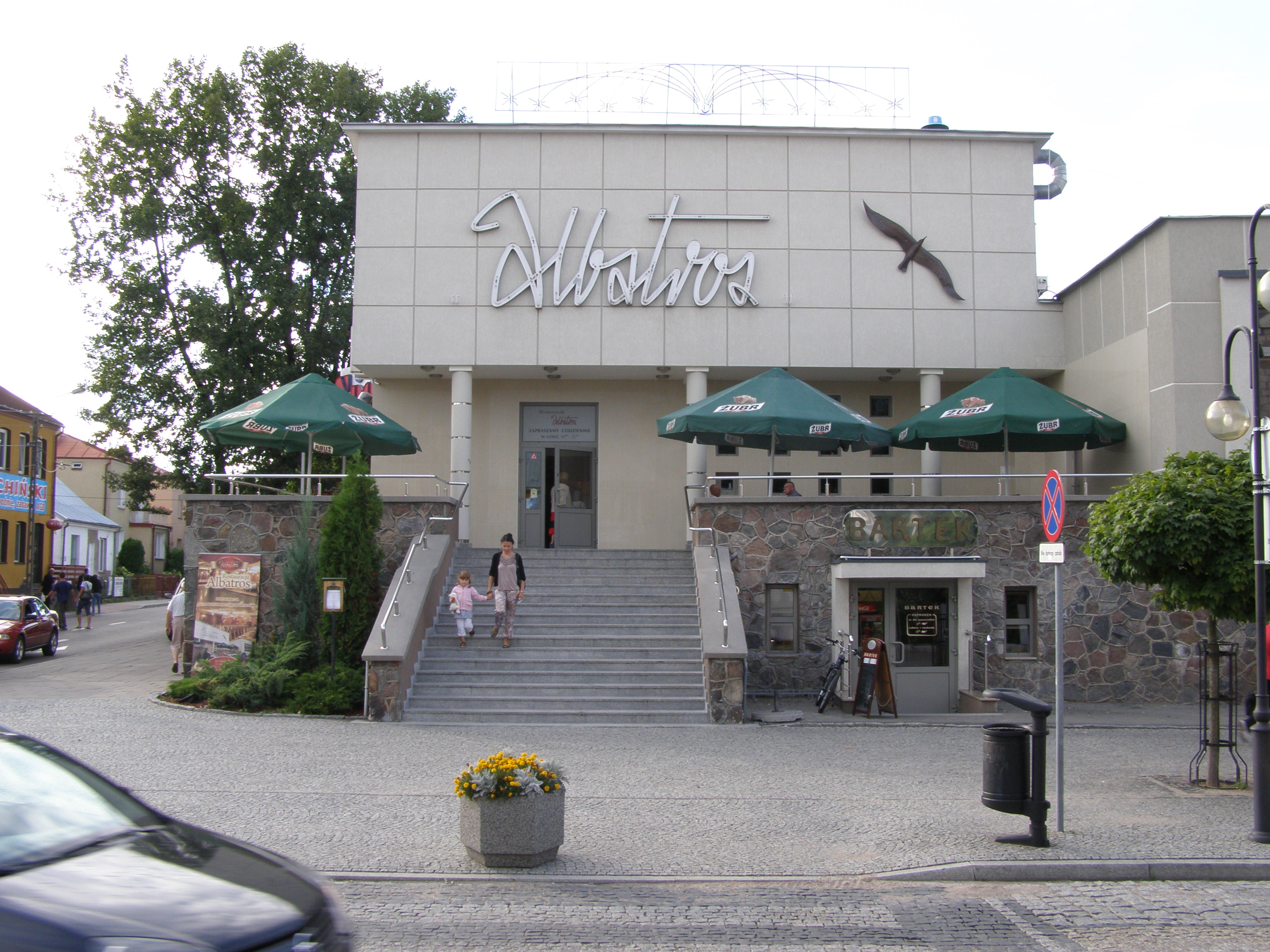 Albatros restaurant in Augustów, Poland